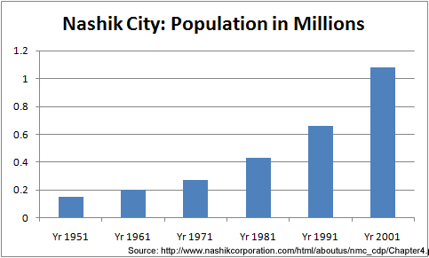 Nashik Population growth: created from